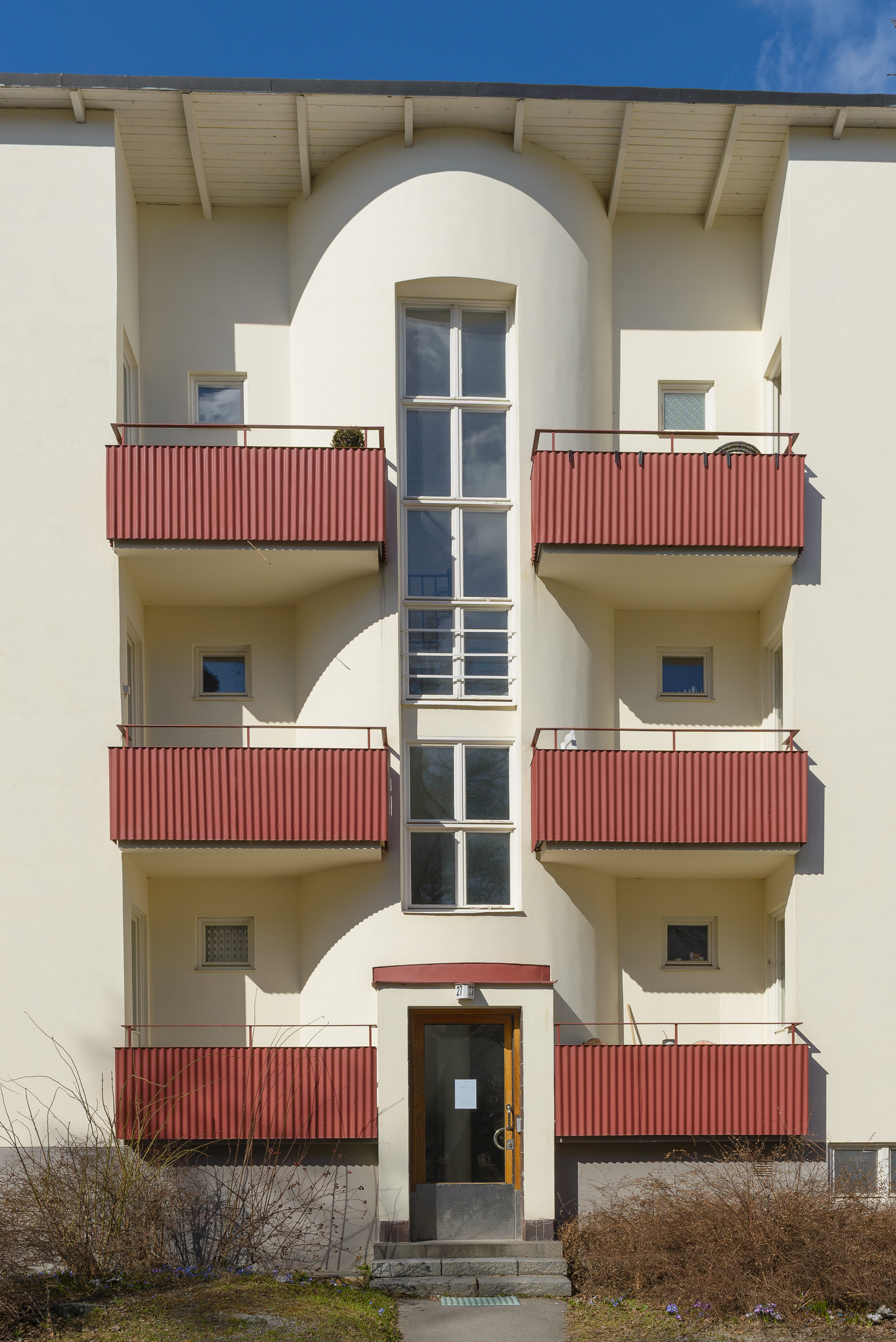 Finn Malmgrens väg 27-29, Hammarbyhöjden, Stockholm. Architect: Ture Sellman.